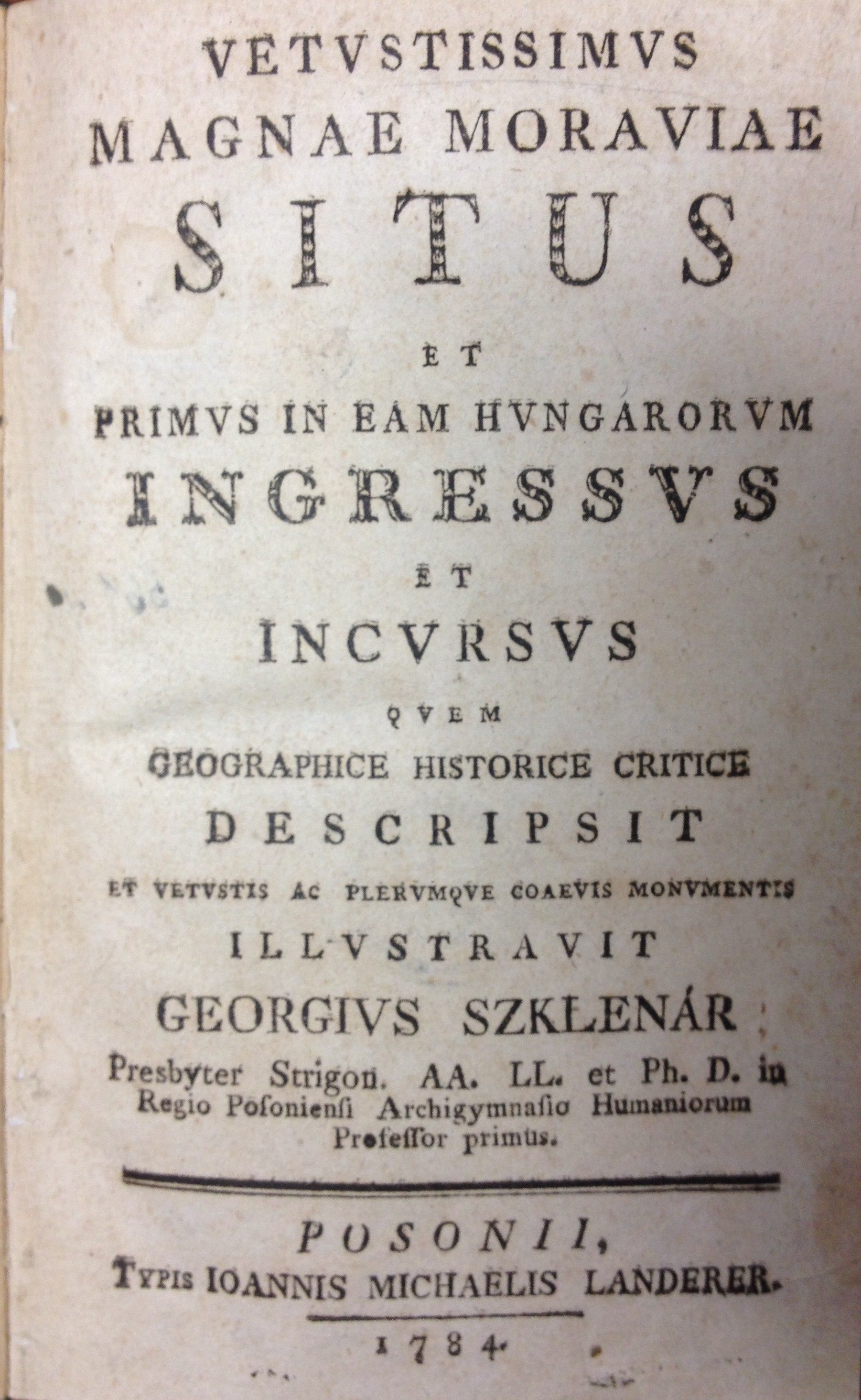 The title page of Juraj Sklenár's work in which he refused the traditional view on the location of Great Moravia.